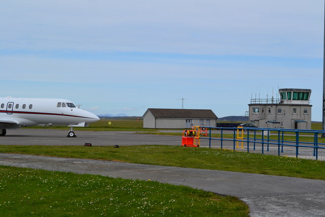 Control tower and apron, Benbecula Airport